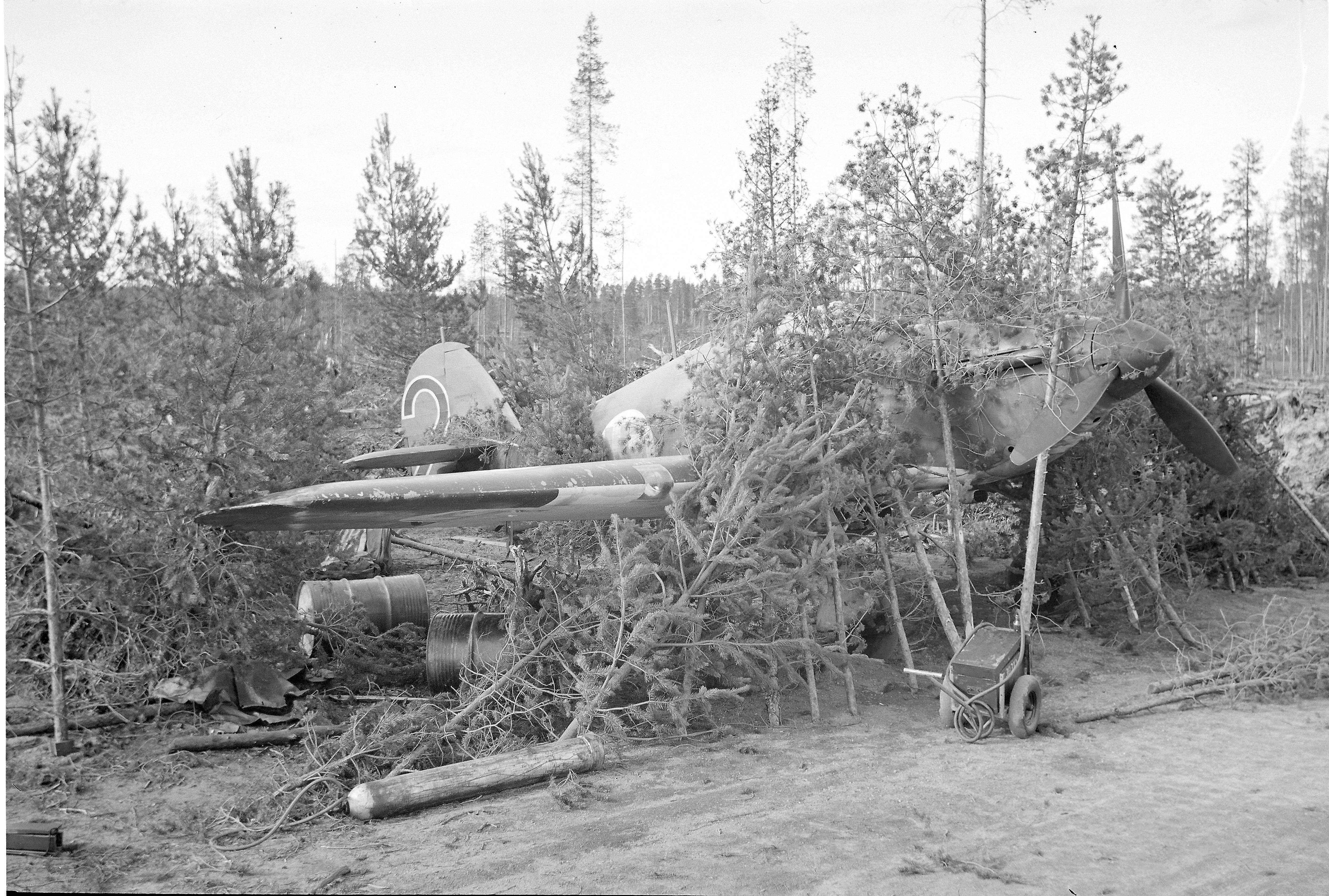 Finnish Hawker Hurricane fighter (HC-452) on Tiiksjärvi airport (SA-kuva 51163)